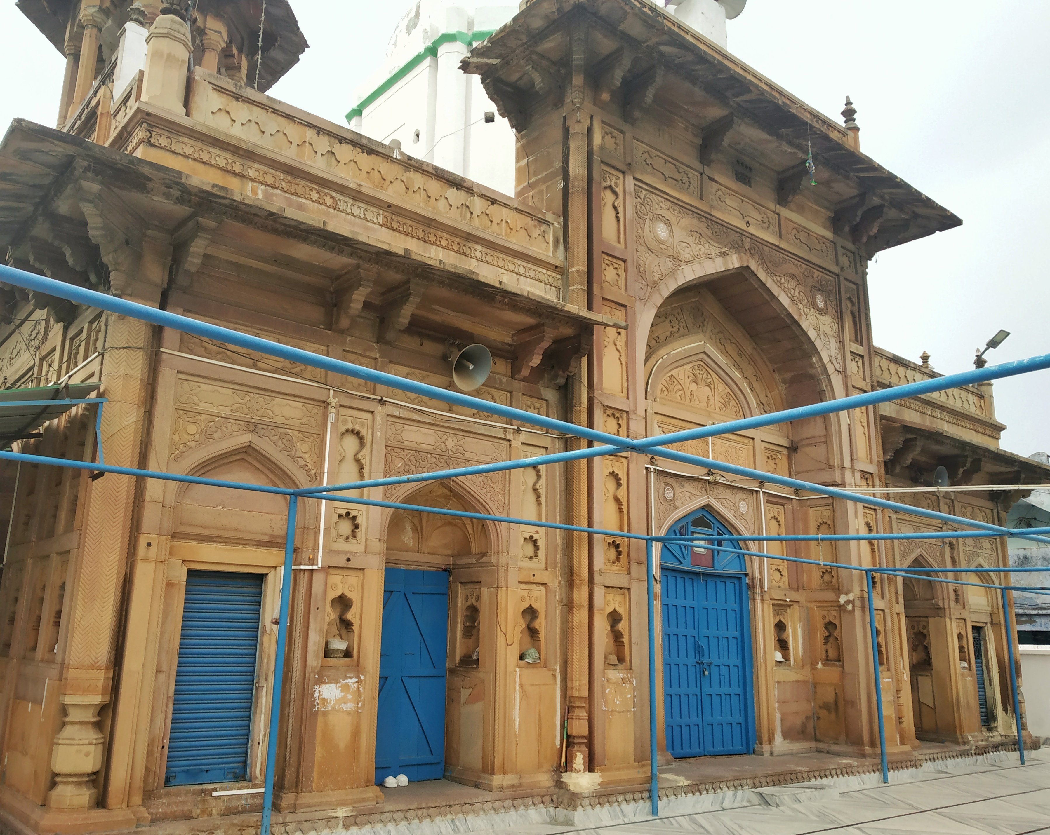 Shahi Masjid Allahabad Daira